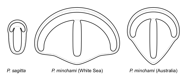 Schematic reconstructions of Parvancorina sagitta, Parvancorina minchami